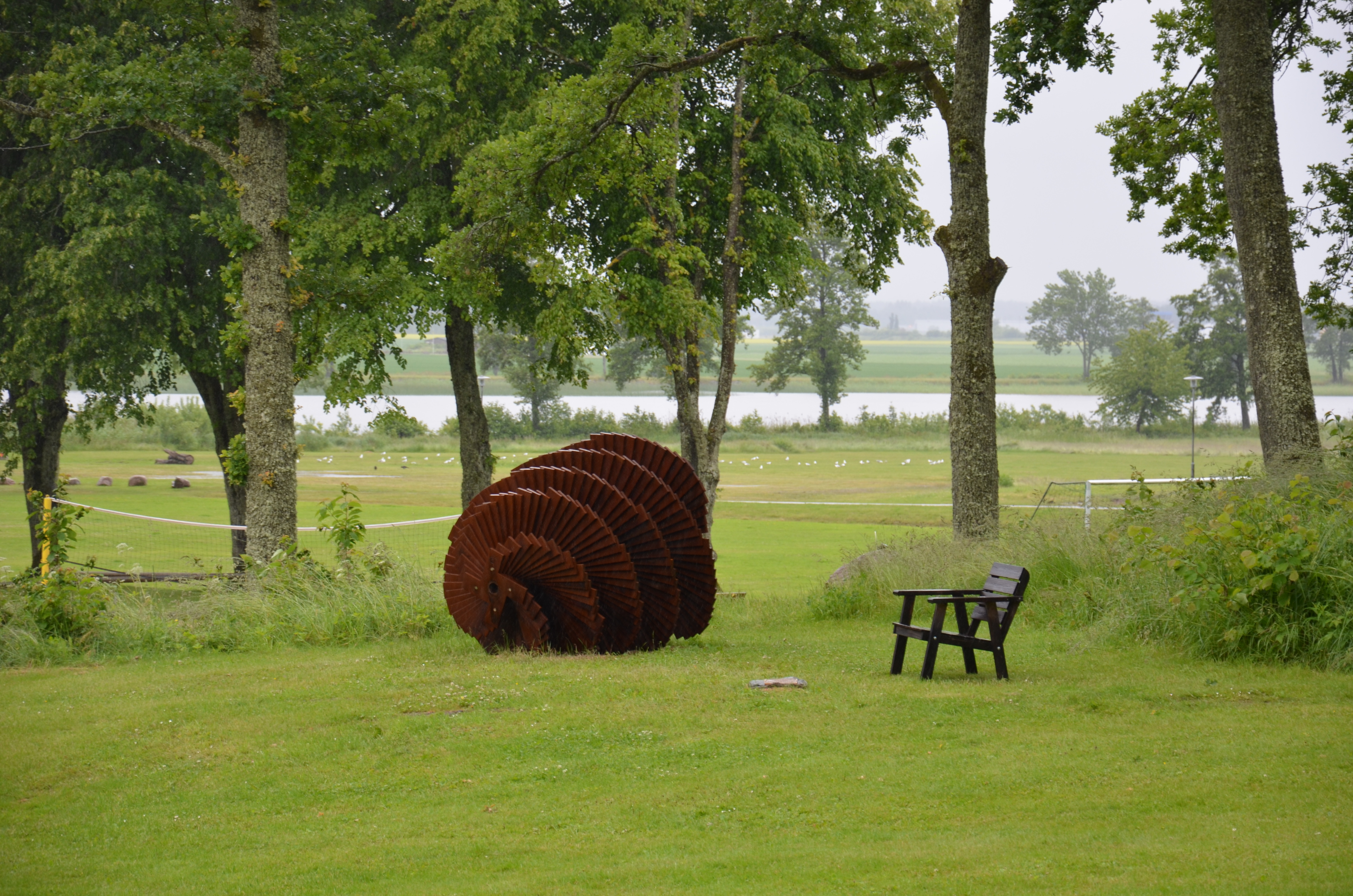 Jonas Holquist's Tournesol 2011, Restad gård, Vänersborg